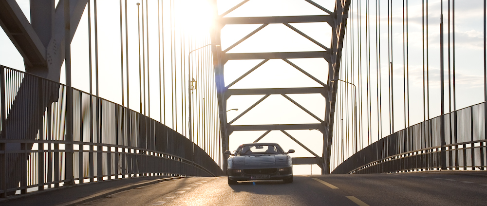 Backlit shot in the evening sun while crossing the bridge between the east and west side of Fredrikstad, Norway.